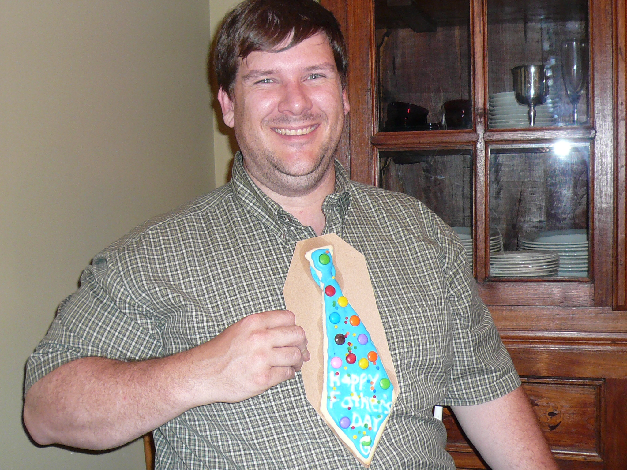 A father holding a necktie cookie on Father's Day